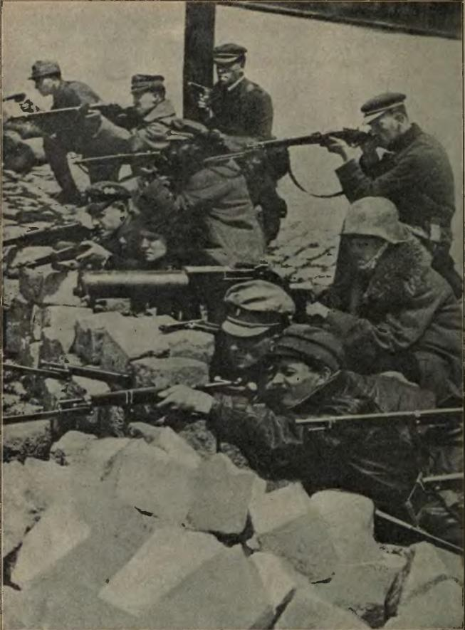 Hungarian red soldiers at a barricade, firing on the counter-revolutionaries, June 24th 1919.